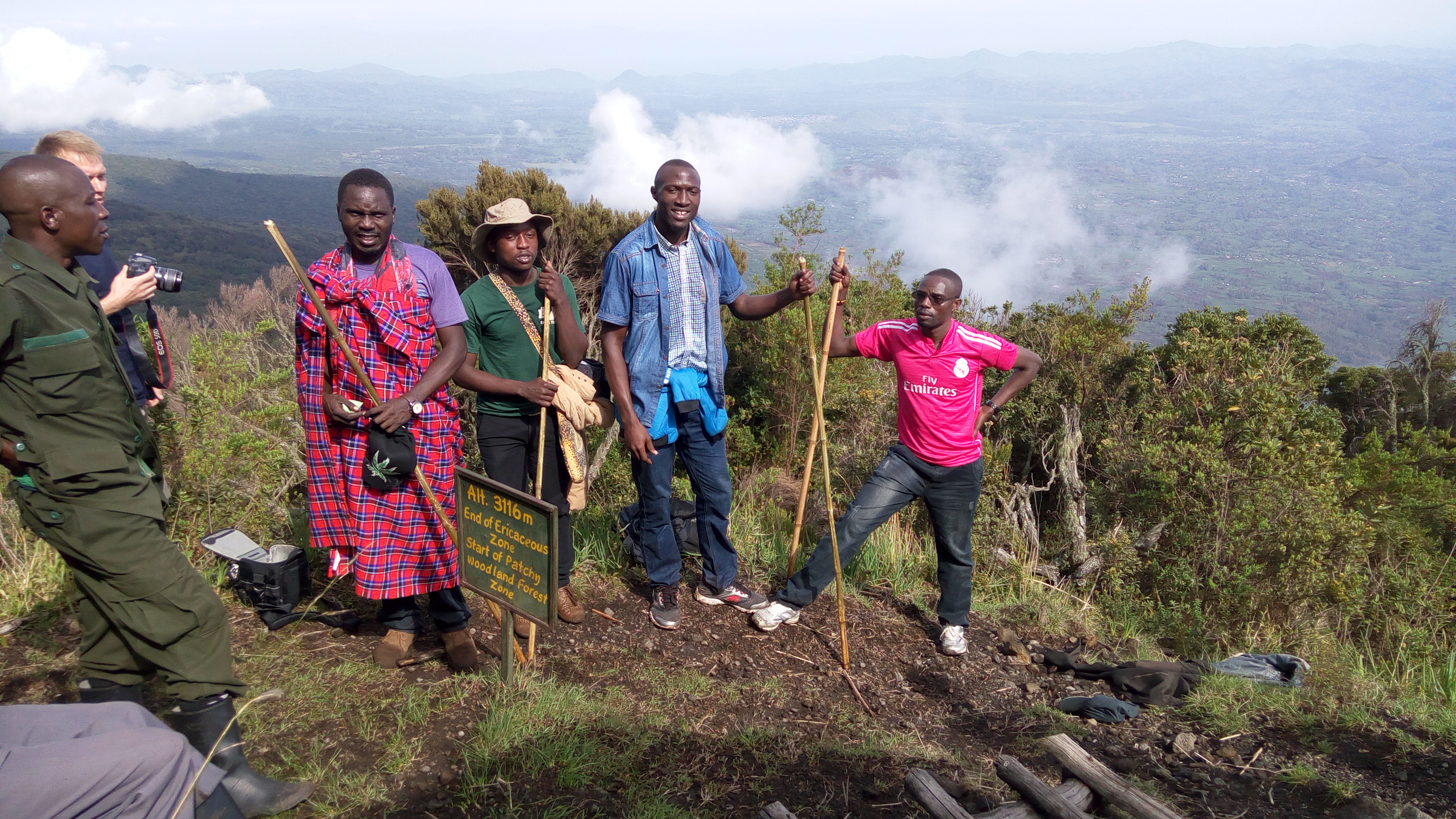 A team of post graduate students hiking on mountain Muhavula in Uganda. They had a lived at the End of Ericaceous Zone & Starting the Patchy wood Land forest Zone at ALT 3116m. This is an image of "African people at work" from Uganda